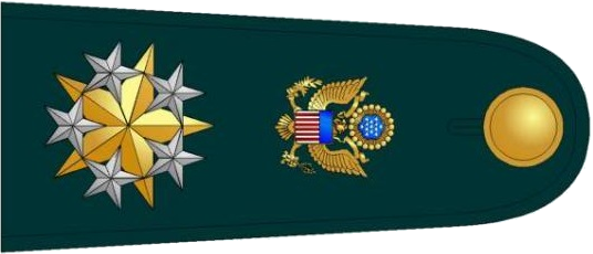 US Army O12 shoulderboard rotated